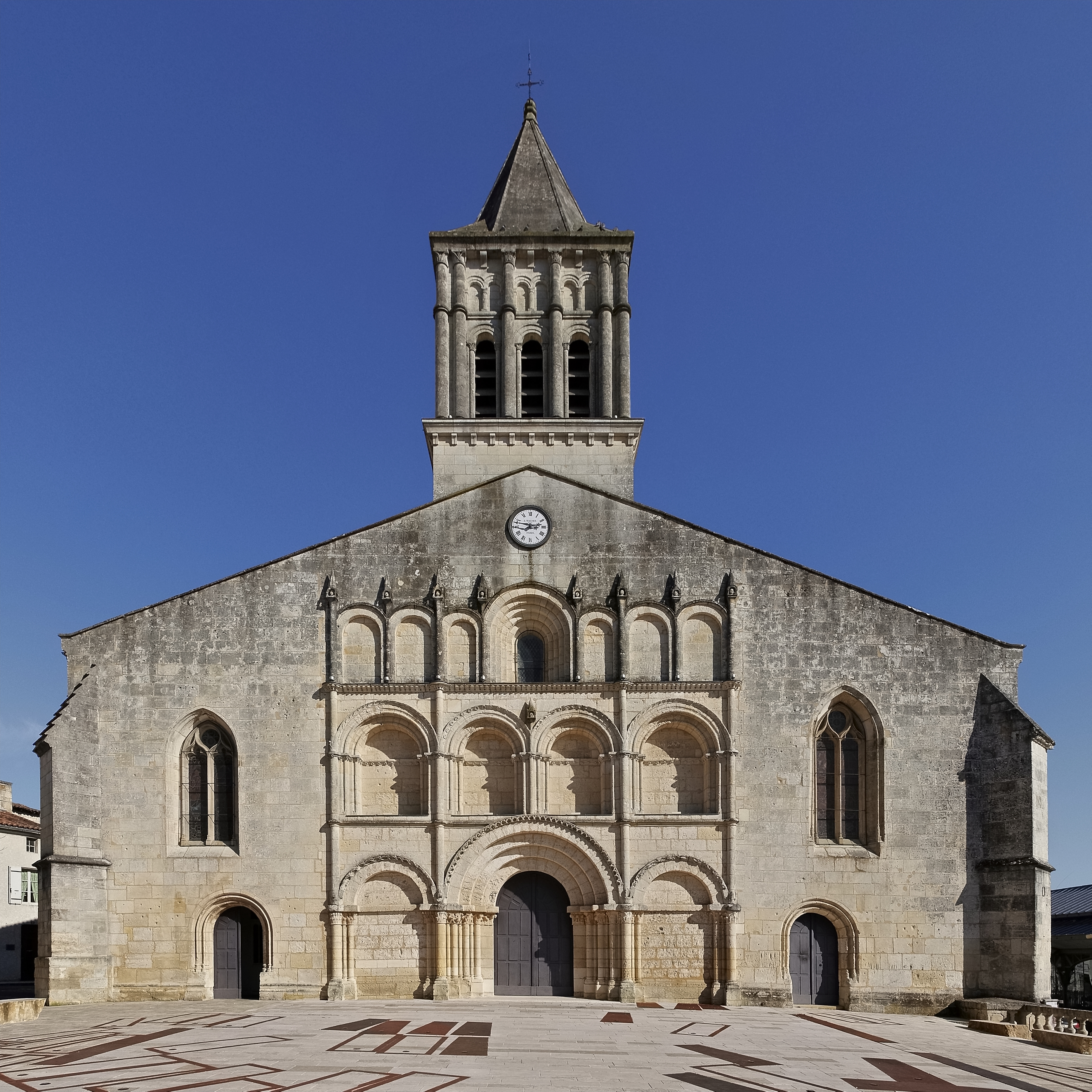 Facade of Saint-Gervais-Saint-Protais church (12th, 15th and 19th centuries), Jonzac, Charente-Maritime, France .